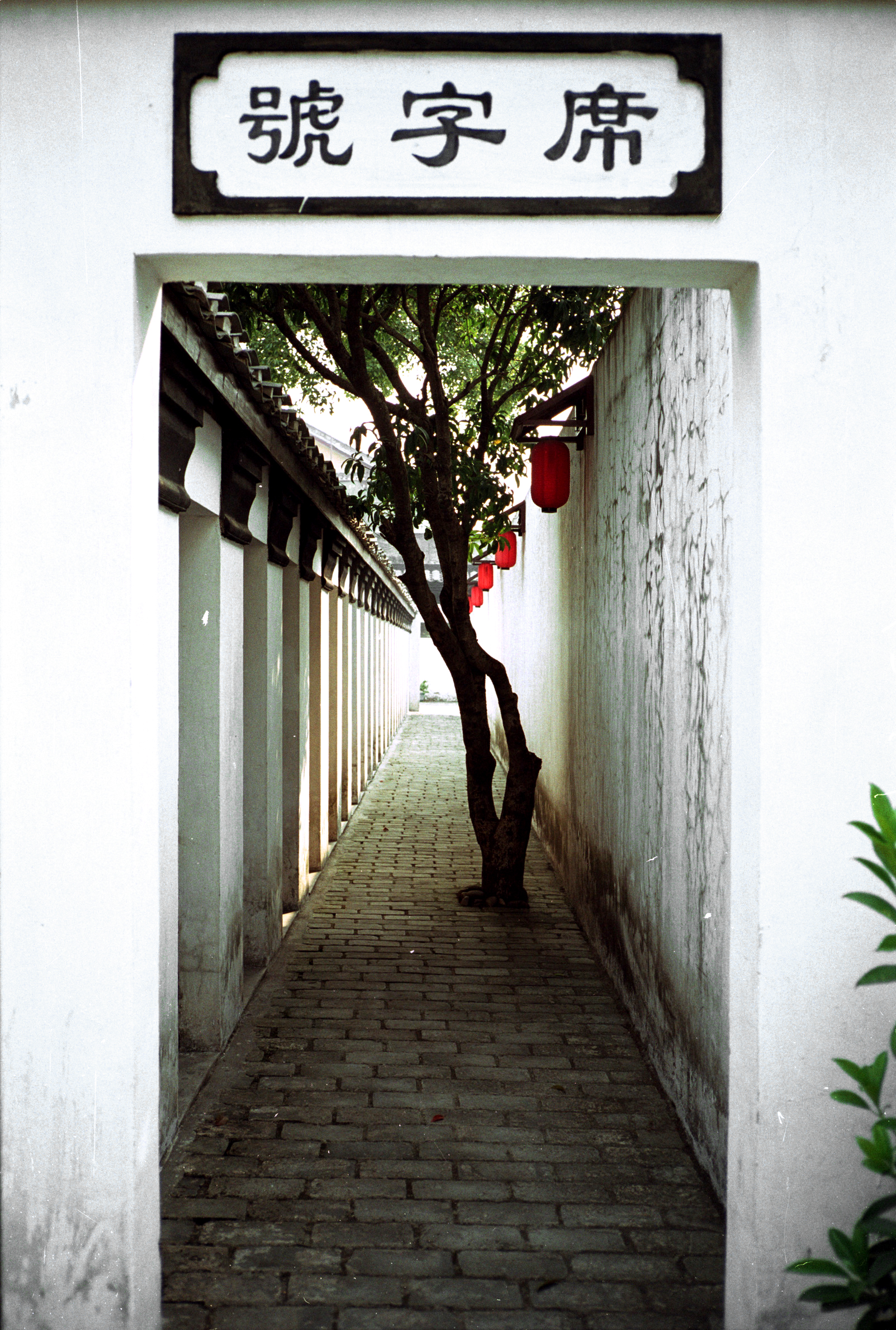 广西贡院 Guangxi examination room